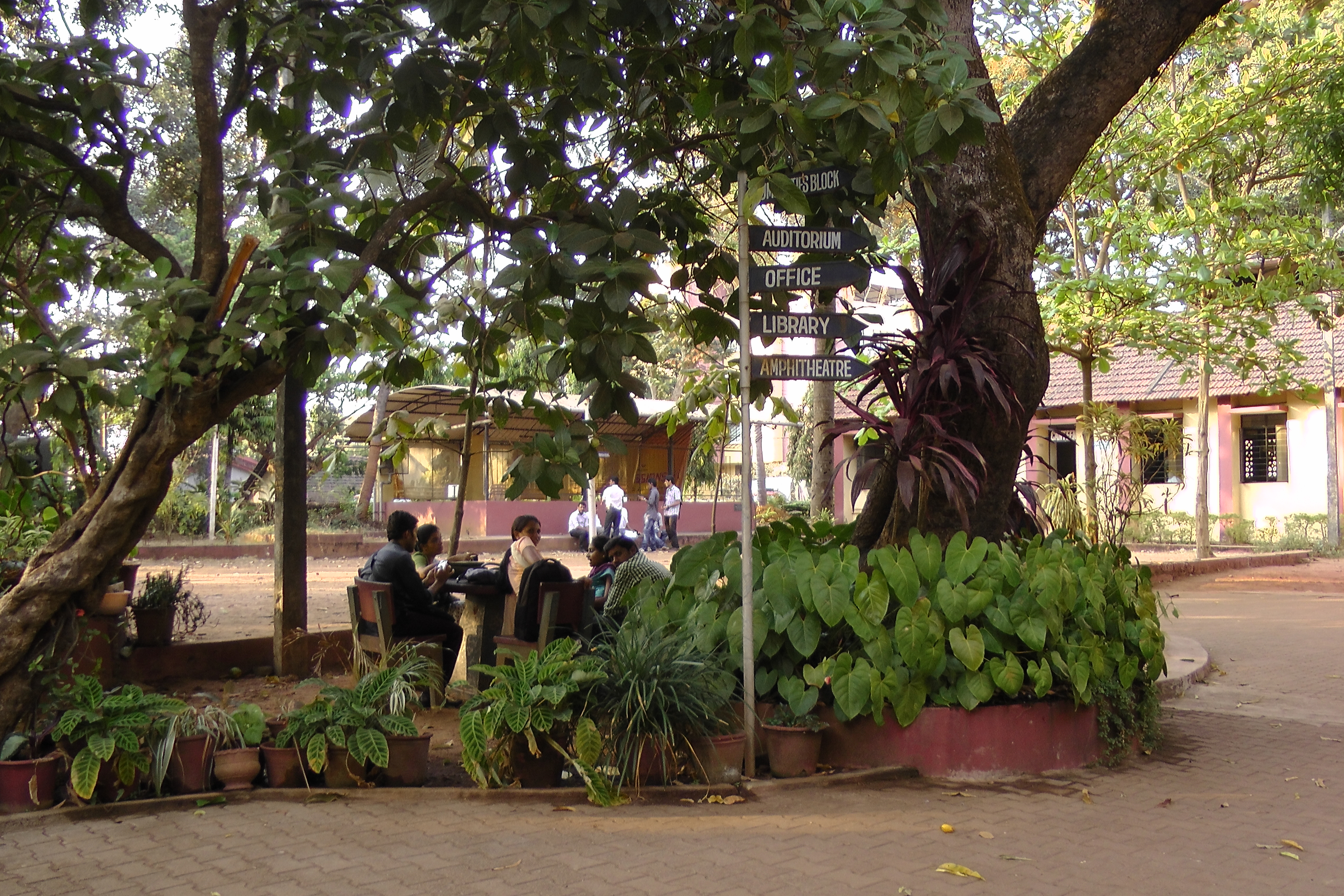 This is where an introductory wikipedia workshop held on the 26th Feb 2013 at the Roshni Nilaya School of Social Work Mangalore, as a preparatory session for International Womens Day Editing events in India.